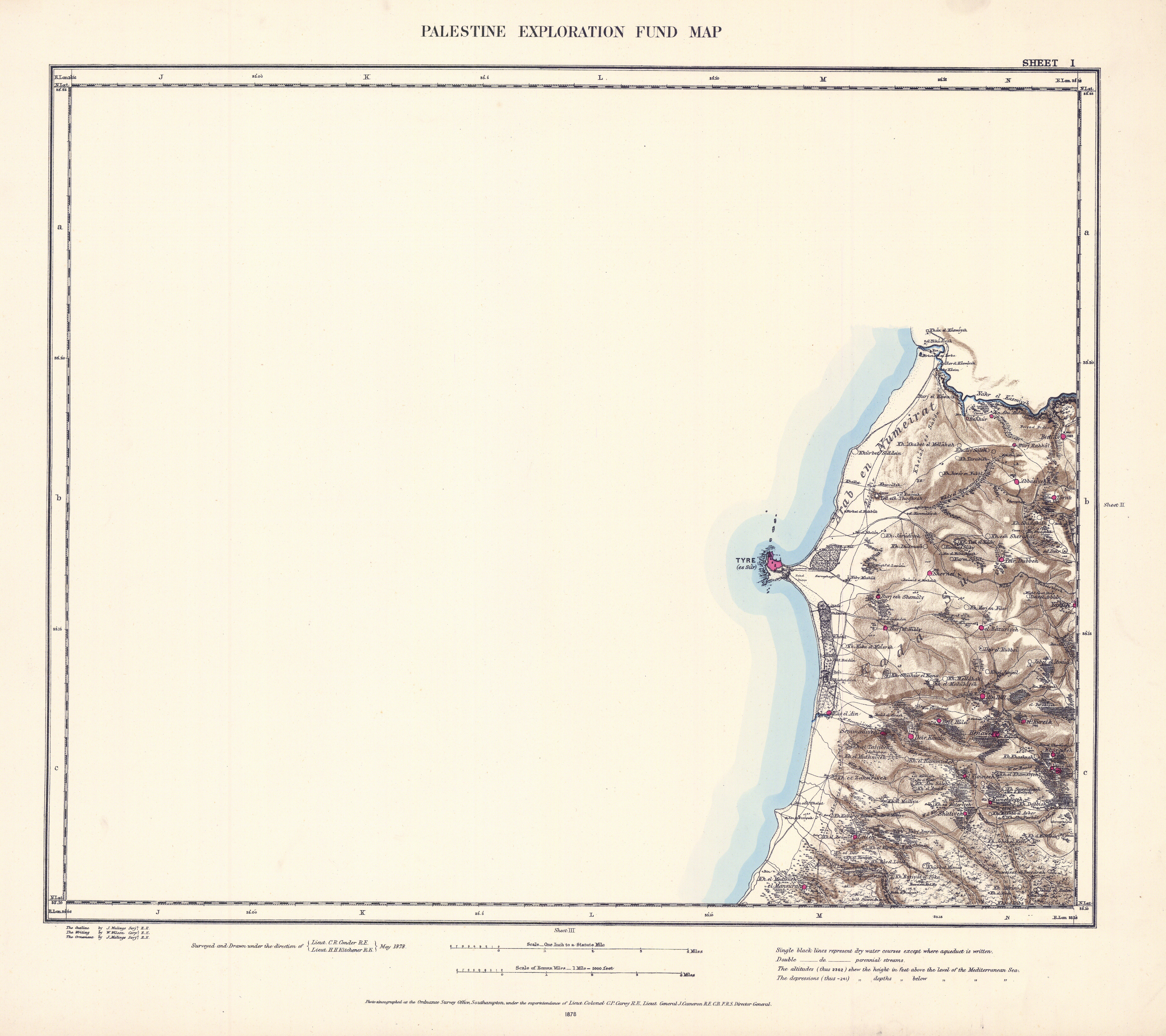 Map of Western Palestine in 26 sheets from the surveys conducted for the Committee of the Palestine Exploration Fund by Lietenanats C.R. Conder and H.H. Kitchener R.E. during the years 1872-1877. Photozincographed and Printed for the Committee ...at the Ordnance Survey Office Southampton. OCLC 234168442. Note I: Marked as copyrighted by Jewish National & University Library, which is not grounded. Note II: This is a collection 72dpi images. For the map in higher resolution, check either David Rumsey Map Collection, Israel Antiquities Authority, The Digital Archaeological Atlas of the Holy Land, Amud Anan (Hebrew), or a CD from BiblePlaces.